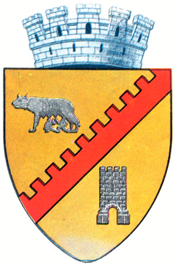 Interwar coat of arms of Caracal, Romanați County, Kingdom of Romania.